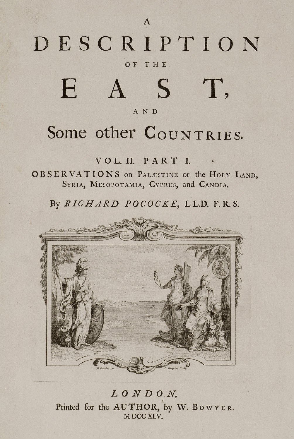 Richard Pococke. A Description of the East, and some other Countries, London, W. Bowyer, MDCCXLV (1743-1745)